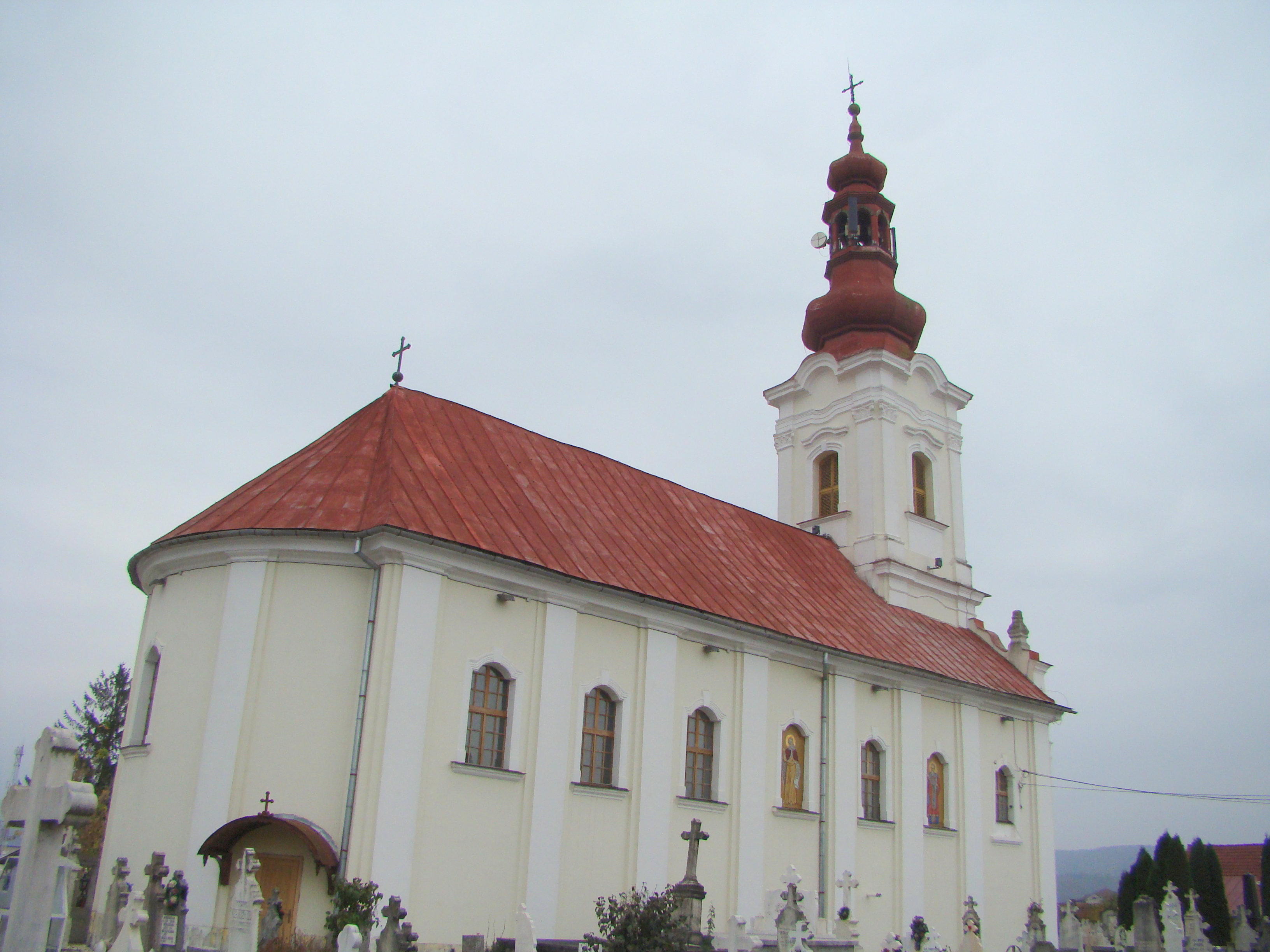 Saint John the Baptist's church in Caransebeș, Caraș-Severin county, Romania